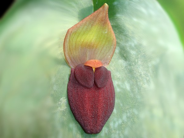 Acronia gargantua